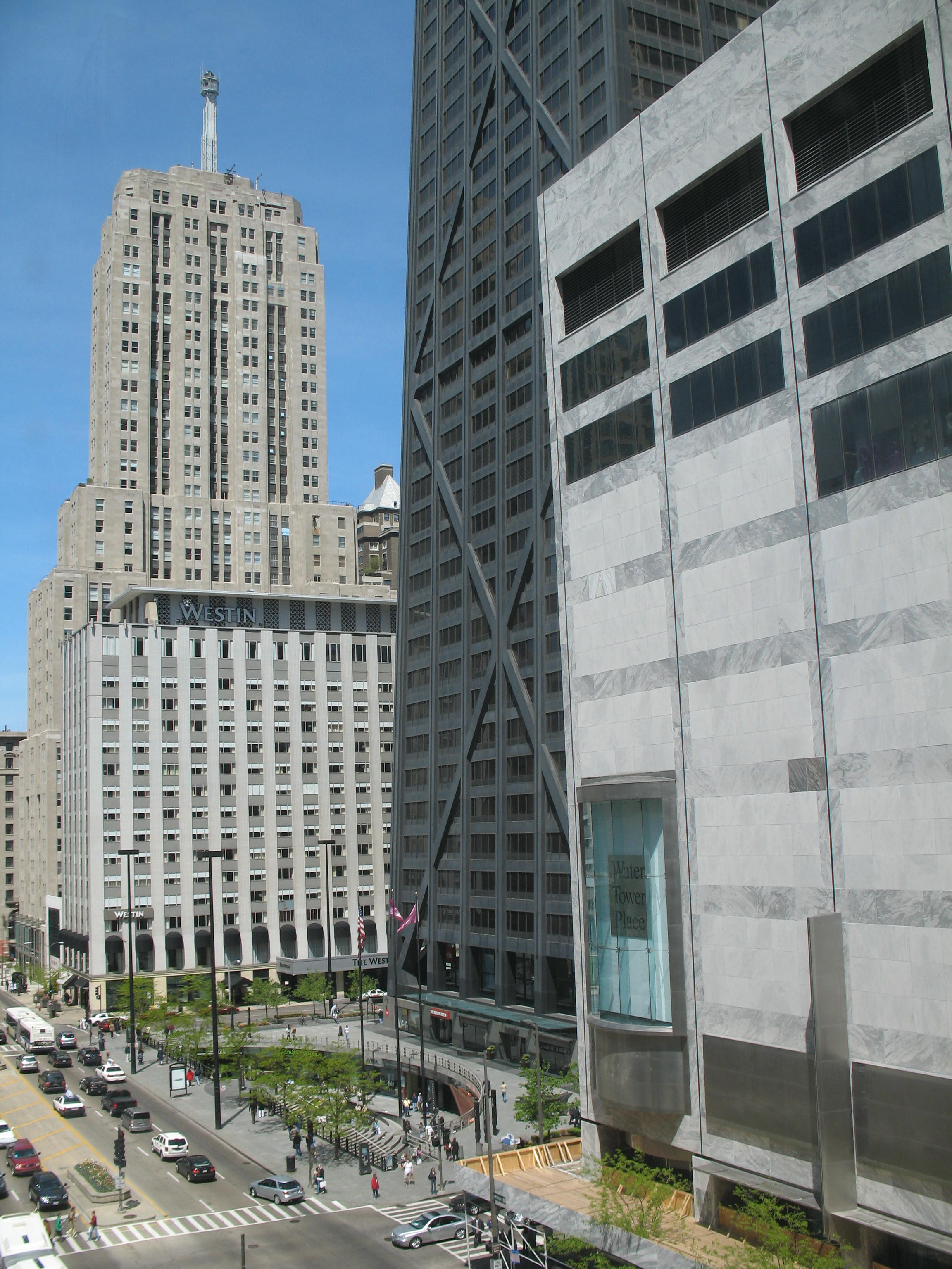 John Hancock Center and Westin Hotel